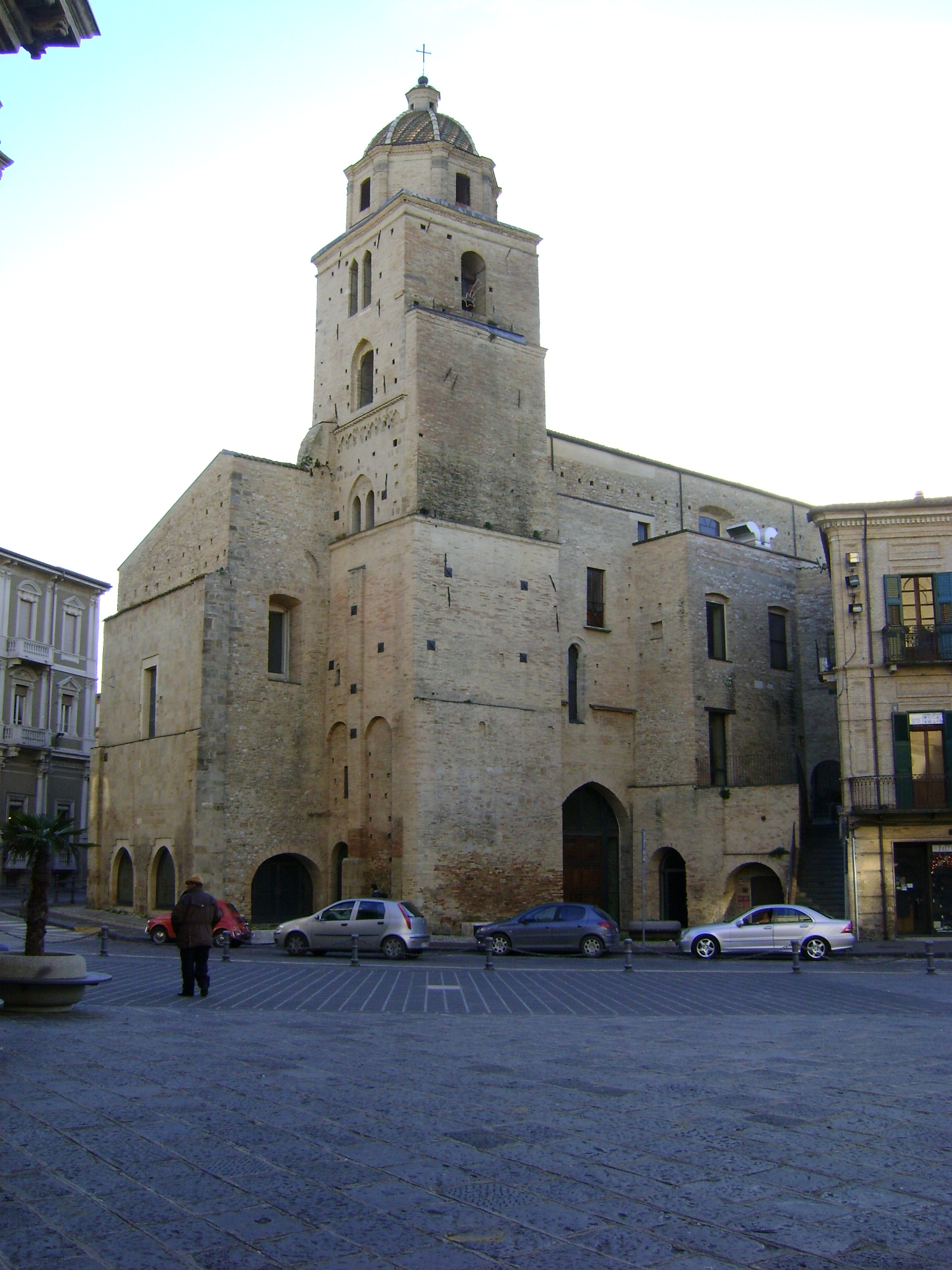 The church of St. Francis in Lanciano, province of Chieti, Abruzzo